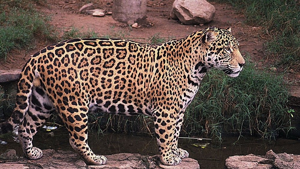 The Jaguar is the apex predator of the Neotropics. Now rare, furtive and nocturnal in the wild. Photo from Santa Cruz Zoo, Bolivia. In context at